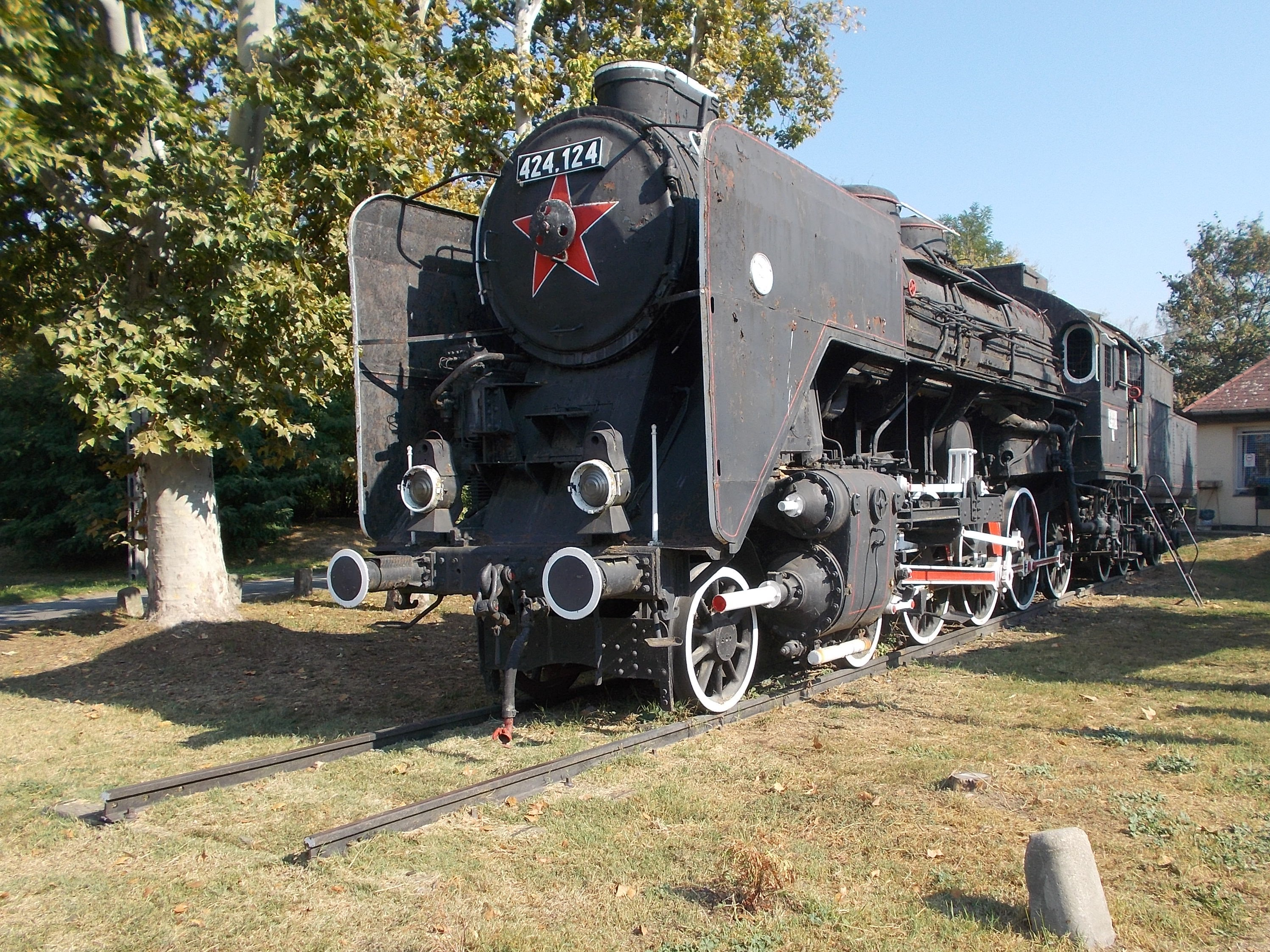 MÁV 424-124 locomotive monument in Dombóvár, Tolna County, Hungary.